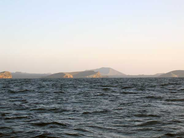 View of Santiago Island (Galápagos) from the South